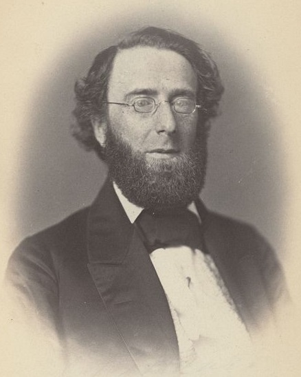 Henry C. Goodwin, New York Congressman